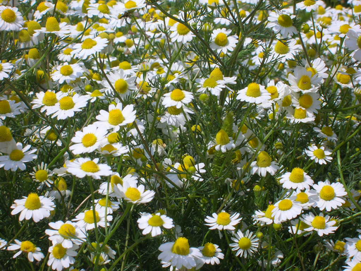 Matricaria recutita